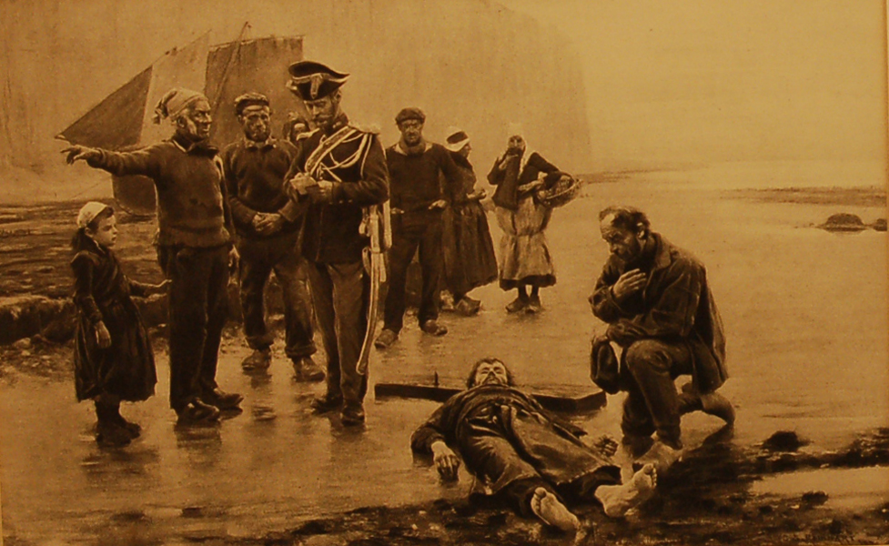 Engraving: Washed Ashore (1887) by Charles Stanley Reinhart.